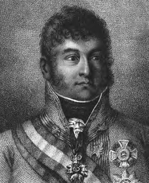 Prince Schwarzenberg. Although commander in chief of Allied forces in Germany during the crucial campaign of 1813, he found his authority restricted by the presence of Allied monarchs at his headquarters.